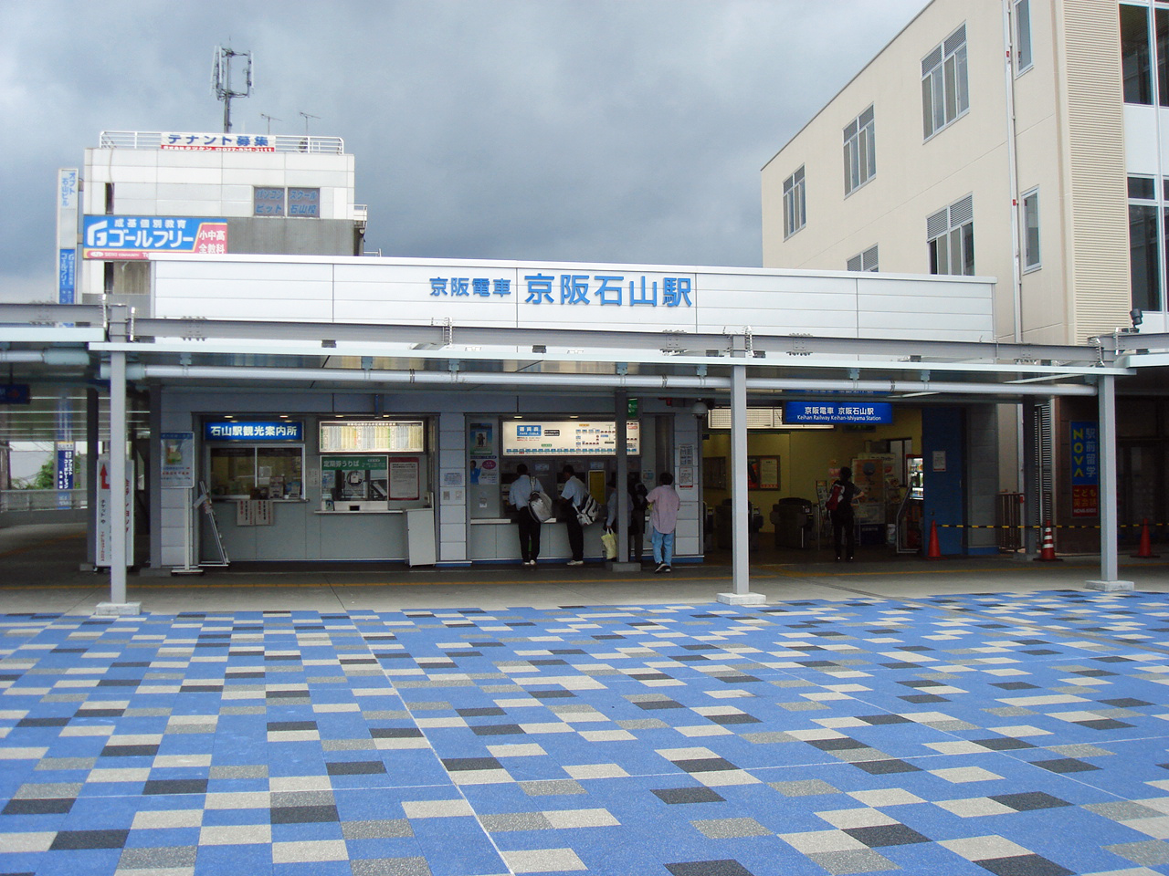 Keihan-Ishiyama Station on the Keihan Ishiyama Sakamoto Line